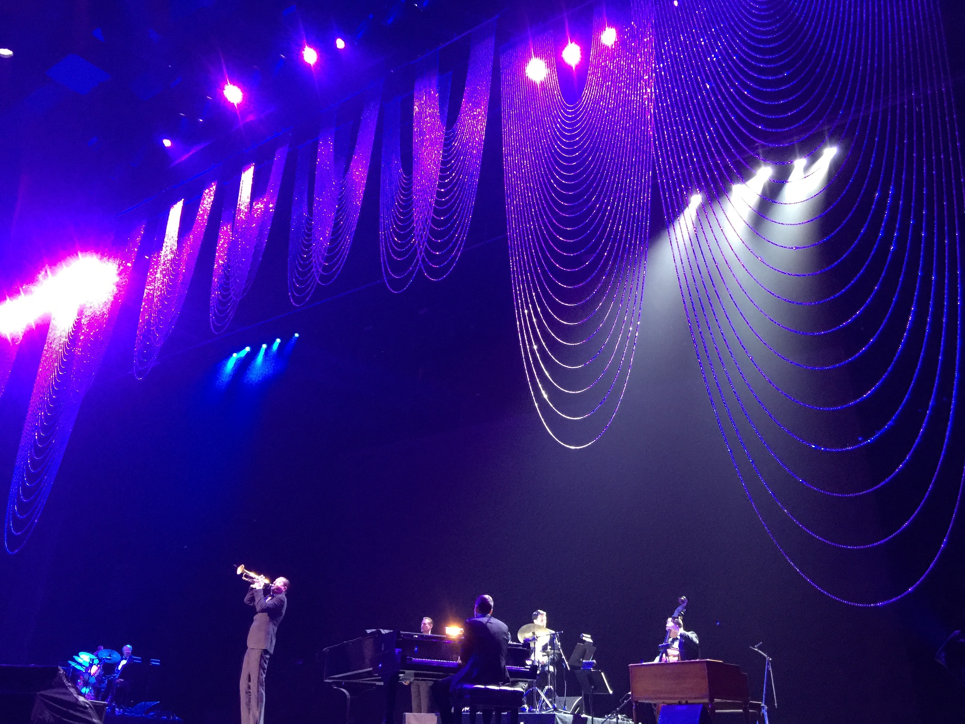 Cheek to Cheek Concert. The Axis. Planet Hollywood. Las Vegas. April 2015. Gaga and Bennett performing at Los Angeles for the Cheek to Cheek Tour